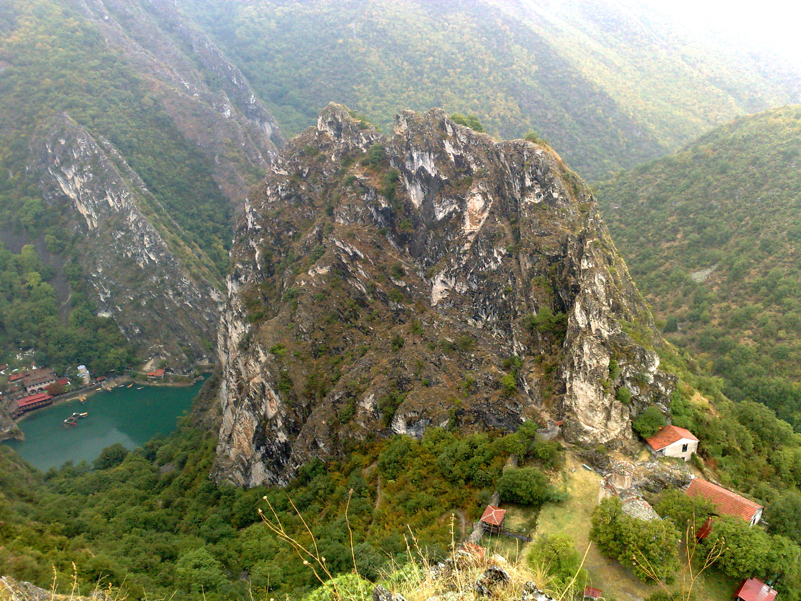 View of the monasteries of Sv.Nikola and Sv.Andreja, Matka Canyon, Macedonia